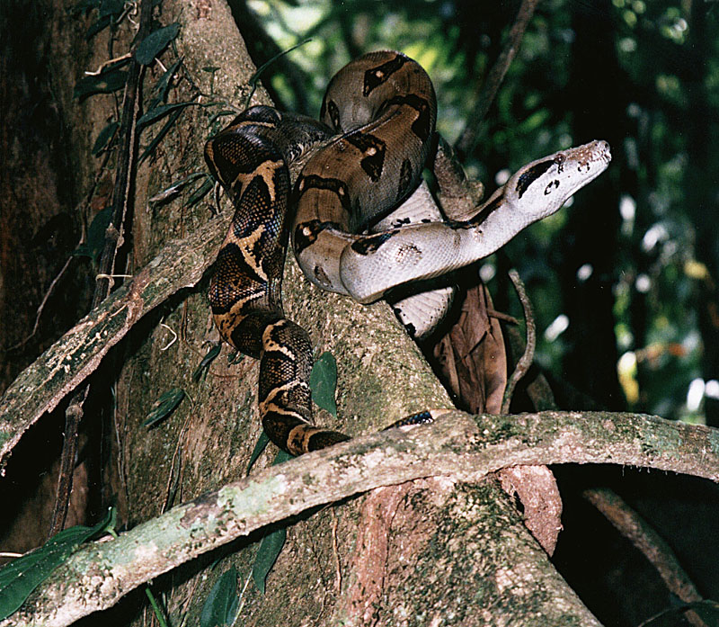 From Costa Rica's Osa Peninsula, also known as the Arabesque Boa. In context at